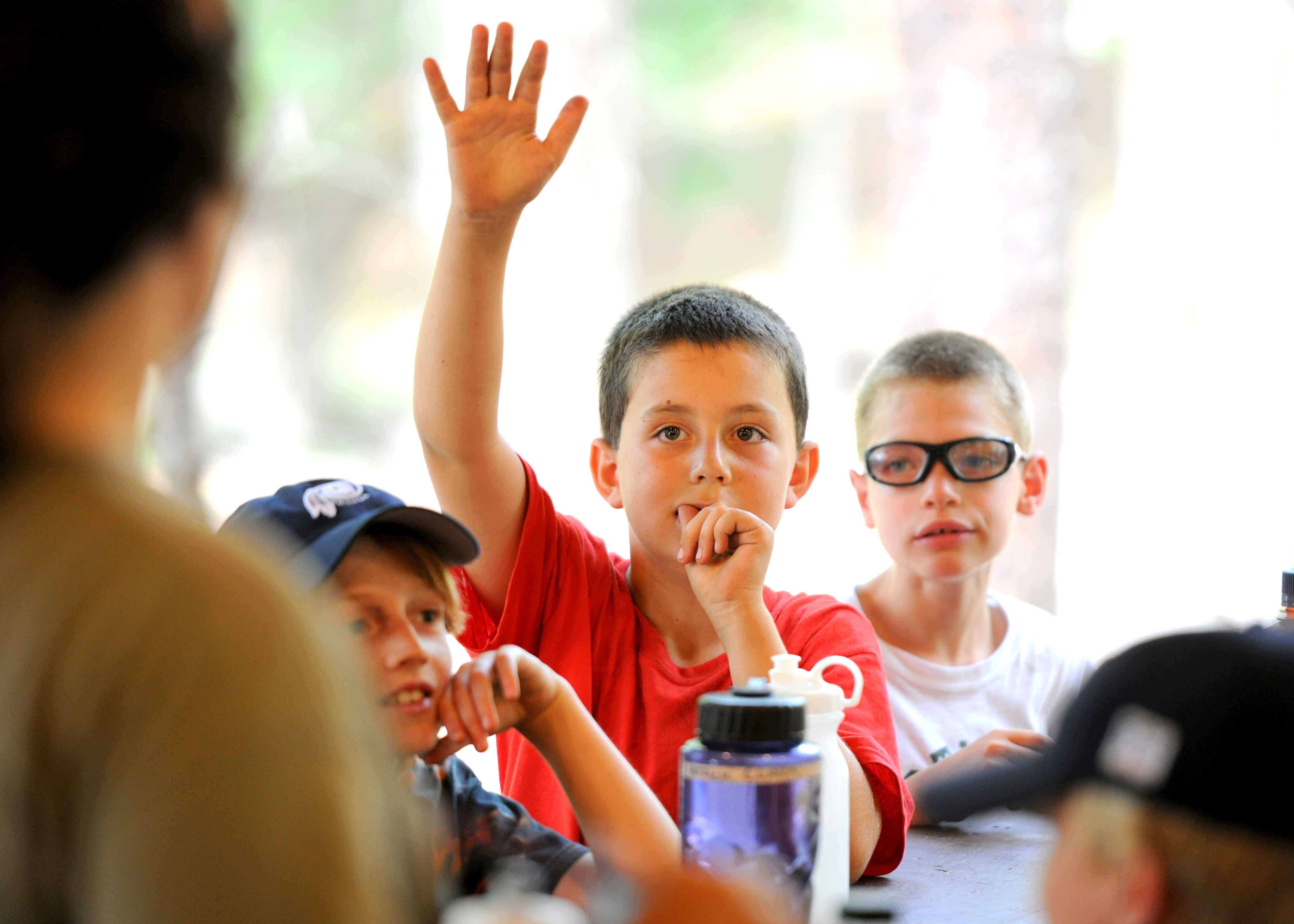 Some pictures from Goshen Cub Scouts camp